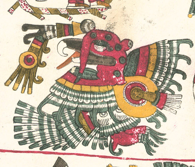 Chalchiuhtotolin described in the Codex Borgia.